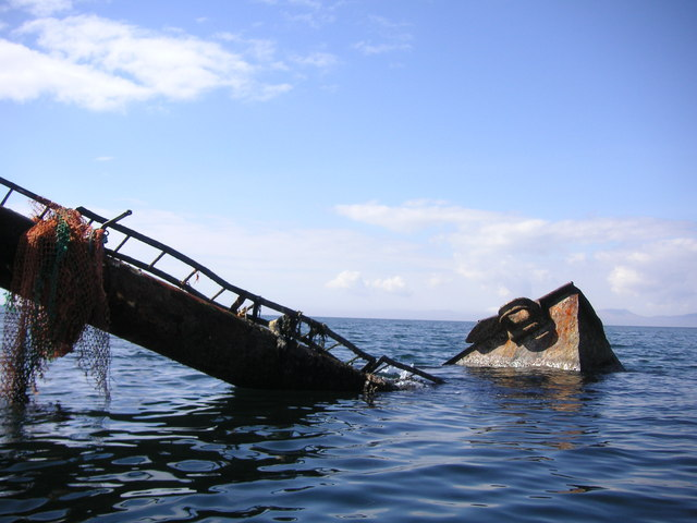 Wreck of Kartli, Port Ban, Gigha. The Kartli ran aground at Port Ban on Gigha in 1991 after being smashed by a 'giant wave' off the Mull of Oa Islay. Gigha, Inner Hebrides, Scotland.